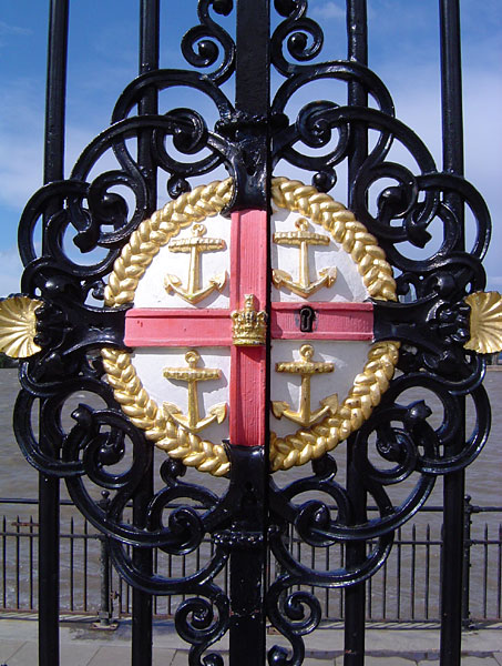 Gate of the Greenwich Hospital, London